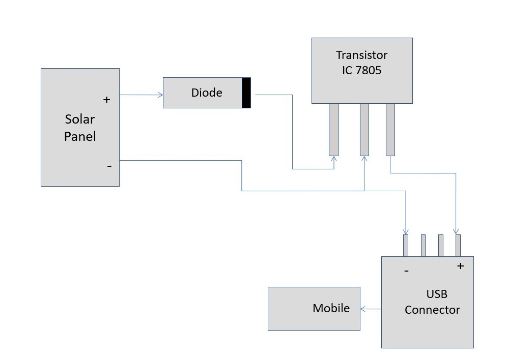 Circuit diagram of solar Mobile charger